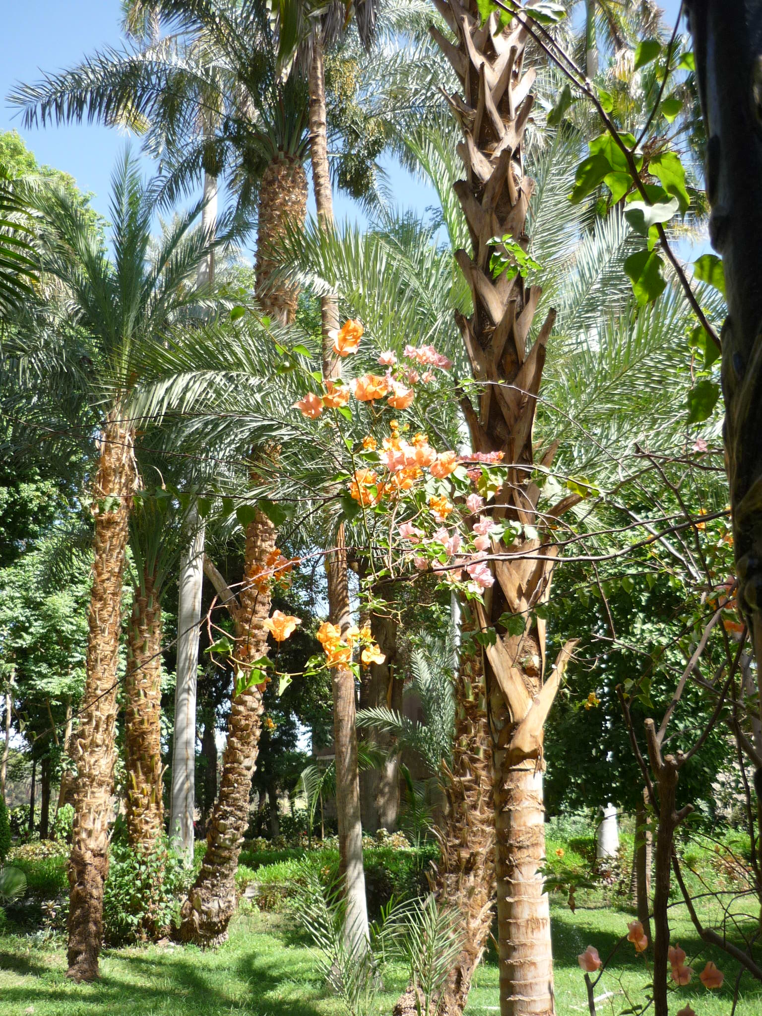 Palm tree collection in the garden. In the Aswan Botanical Garden - on Kitchener's Island in the Nile, Aswan - Egypt.